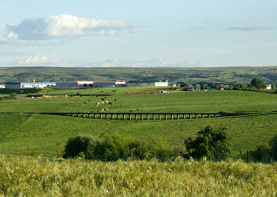 Canalización de agua en los campos de Coria.